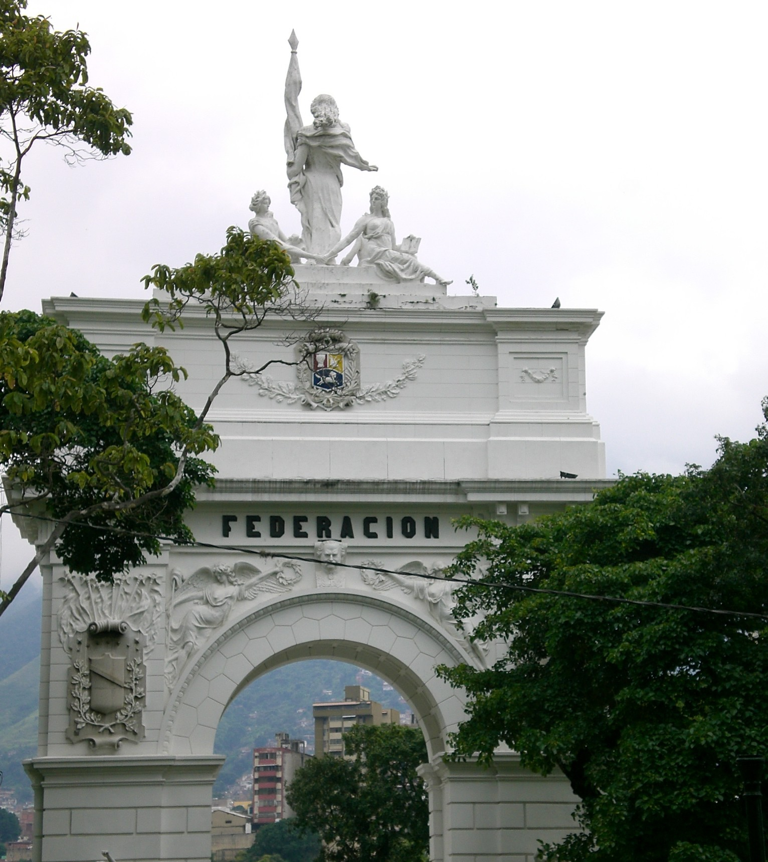 Federation Arch at “El Calvario” Park, Caracas, Venezuela.